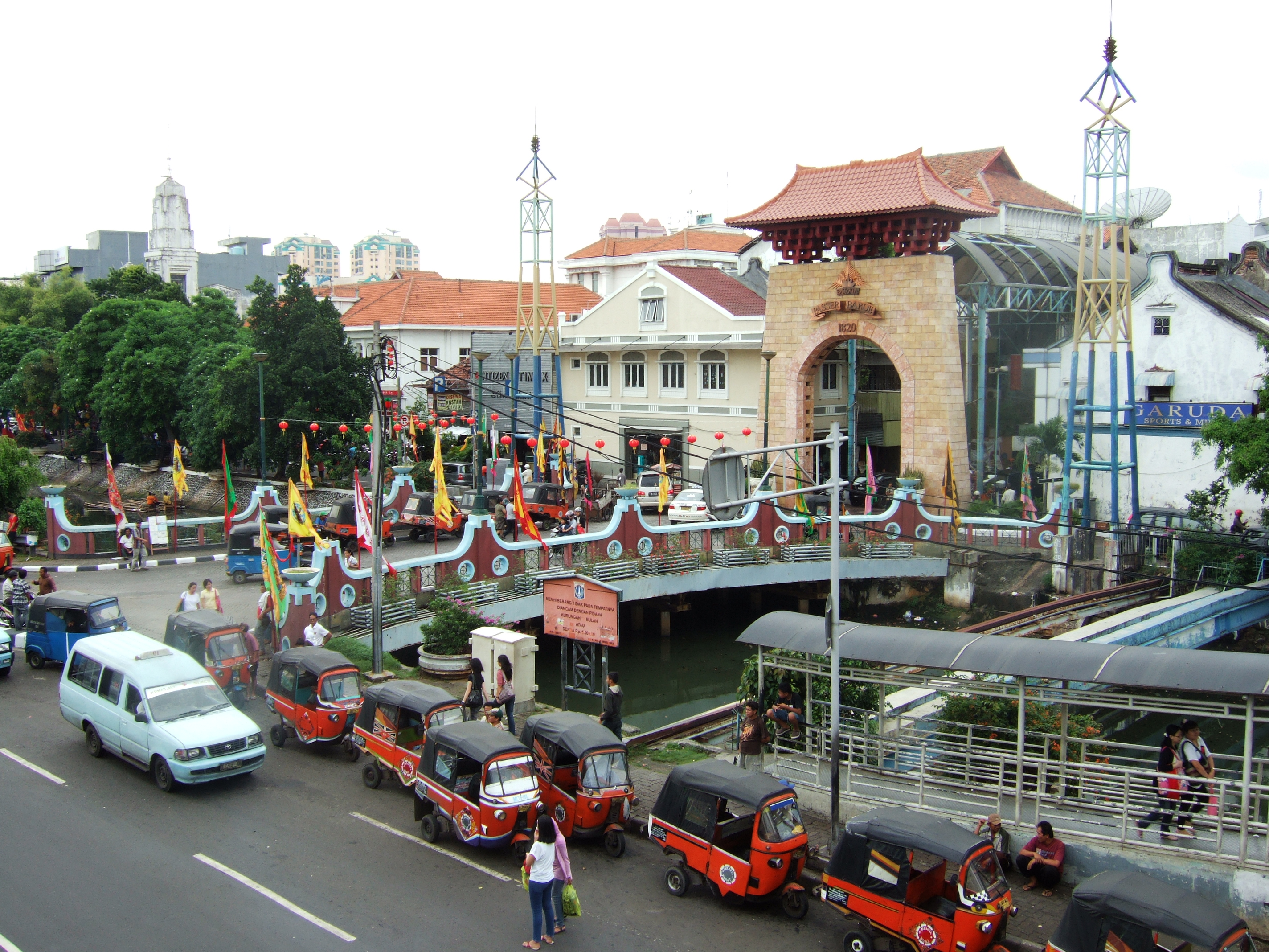 Pasar Baru Shopping Arcade, Jakarta Pusat, Indonesia